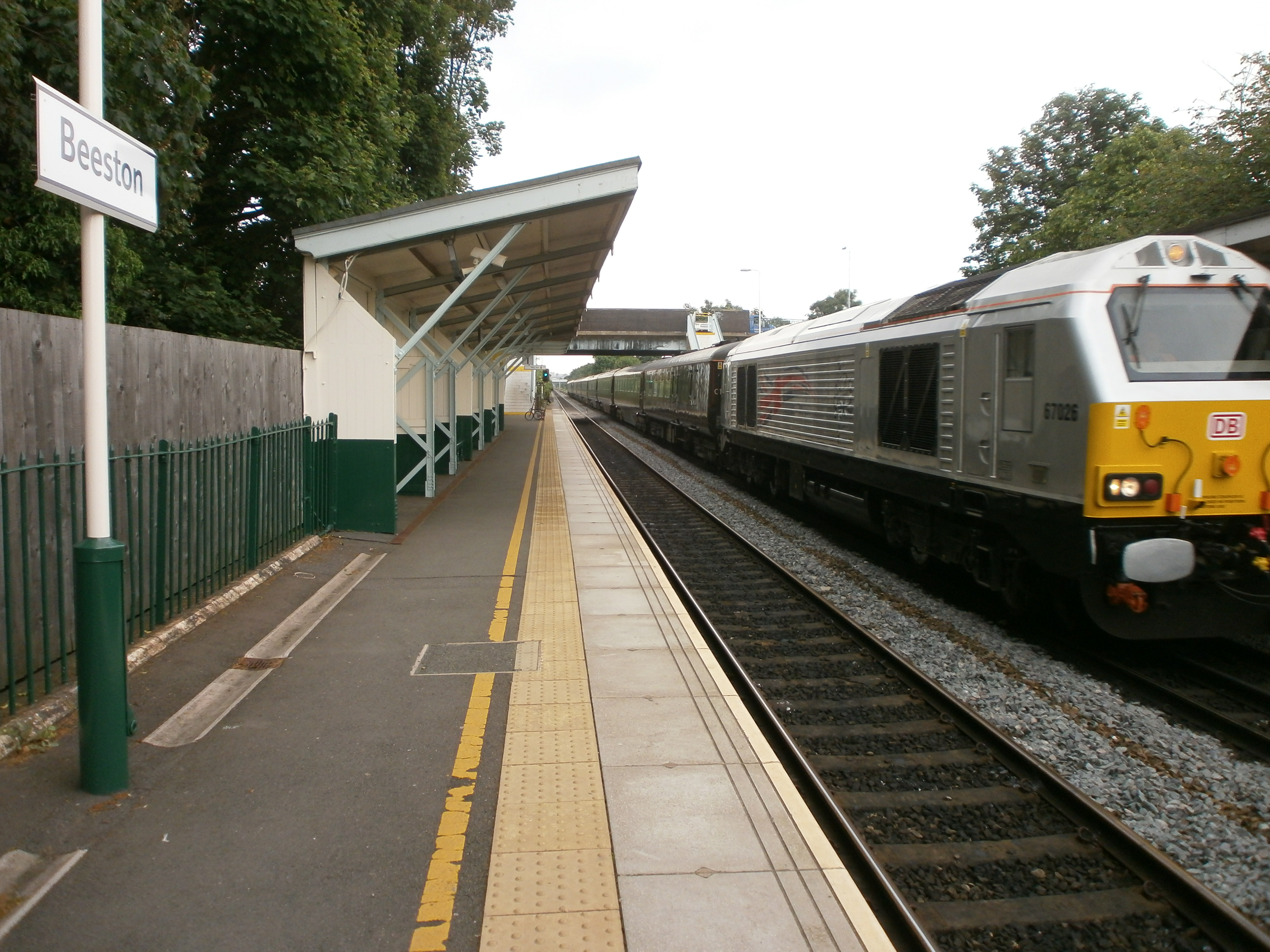 Beeston railway station in Beeston, Nottingham with British Royal Train passing westbound through Platform 2 at 11:49 on 13 June 2012: British Railway Class 67026 Diamond Jubilee and 67006 Royal Sovereign top and tailing the empty coaching stock (ECS) eight-car Royal Train consist of 2921, 2903, 2916, 2922, 2923, 2917, 2915, 2920. The train had previously arrived at Nottingham railway station Platform 6 for 10:05, and waited both in Platform 6, and later in the Up Slow loop opposite Beeston Sidings. The train had been routed via Grantham railway station with Elizabeth II on board, who was then met by William Wales and Kate at the west end of platform 6, adjacent to the newly finished "Queen's Road Multi-Storey Car Park"—the same Queen's Road was originally named following arrival of the first royal train visit to Nottingham in 1846, arriving at Nottingham Carrington Street railway station (Goods Yard) with Queen Victoria on board. The date was also the 170th anniversary of Queen Victoria's very first royal train journey (from Slough to Paddington railway station) on 13 June 1842. The present-day Diamond Jubilee of Elizabeth II-procession proceeded by road to Nottingham Council House in the Old Market Square, and then transferred an hour later to Vernon Park in Basford, Nottinghamshire. The leading locomotive in the photograph carries a Deutsche Bahn logo. Beeston "Station Road Bridge" is visible in the background, crossing over the end of the station platforms. A partially-folded Brompton Bicycle is visible on Platform 1.